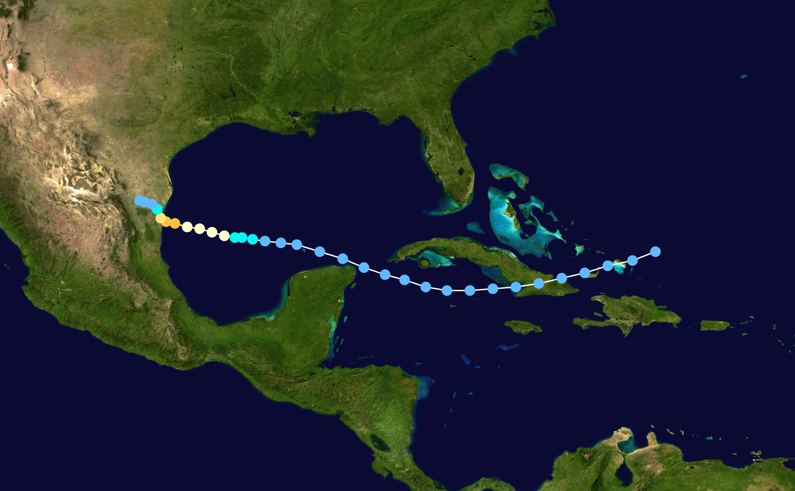 Hurricane Caroline (1975) track. Uses the color scheme from the Saffir-Simpson Hurricane Scale.